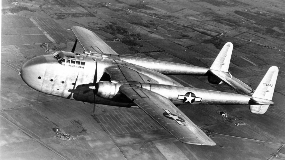 PictionID:40973142 - Title:Packet Fairchild XC-82 4-13202 - Catalog:15_002795 - Filename:15_002795.tif - Image from the Charles Daniels Photo Collection album "US Army Aircraft."----PLEASE TAG this image with any information you know about it, so that we can permanently store this data with the original image file in our Digital Asset Management System.----SOURCE INSTITUTION: San Diego Air and Space Museum Archive